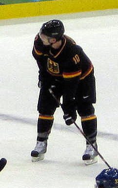 German defenceman Christian Ehrhoff in a game against Sweden during the 2010 Winter Olympics in Vancouver.